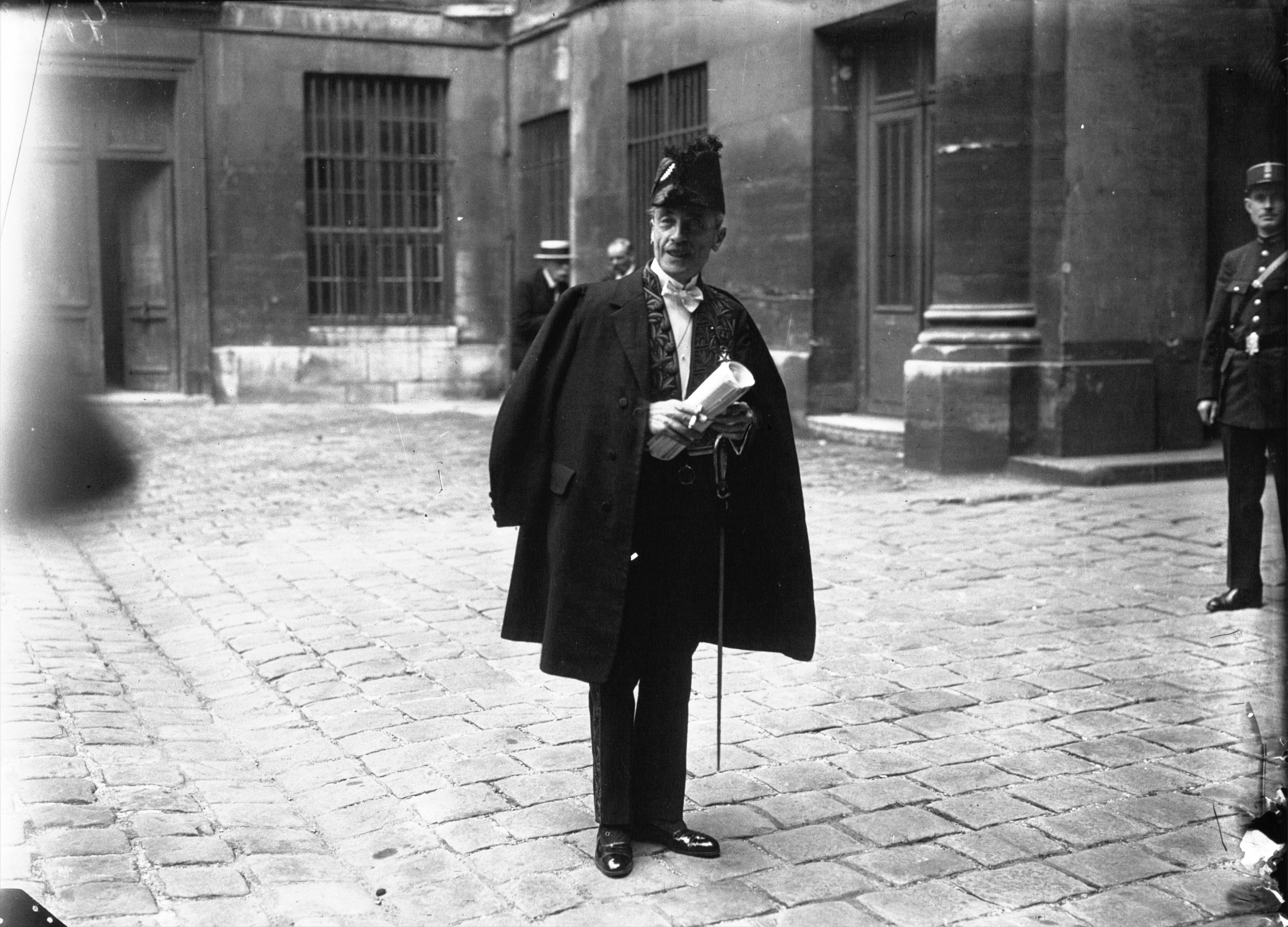 French poet Paul Valéry (1871-1945) as a member of the Académie française in 1927 wearing the ceremonial grand habit vert.